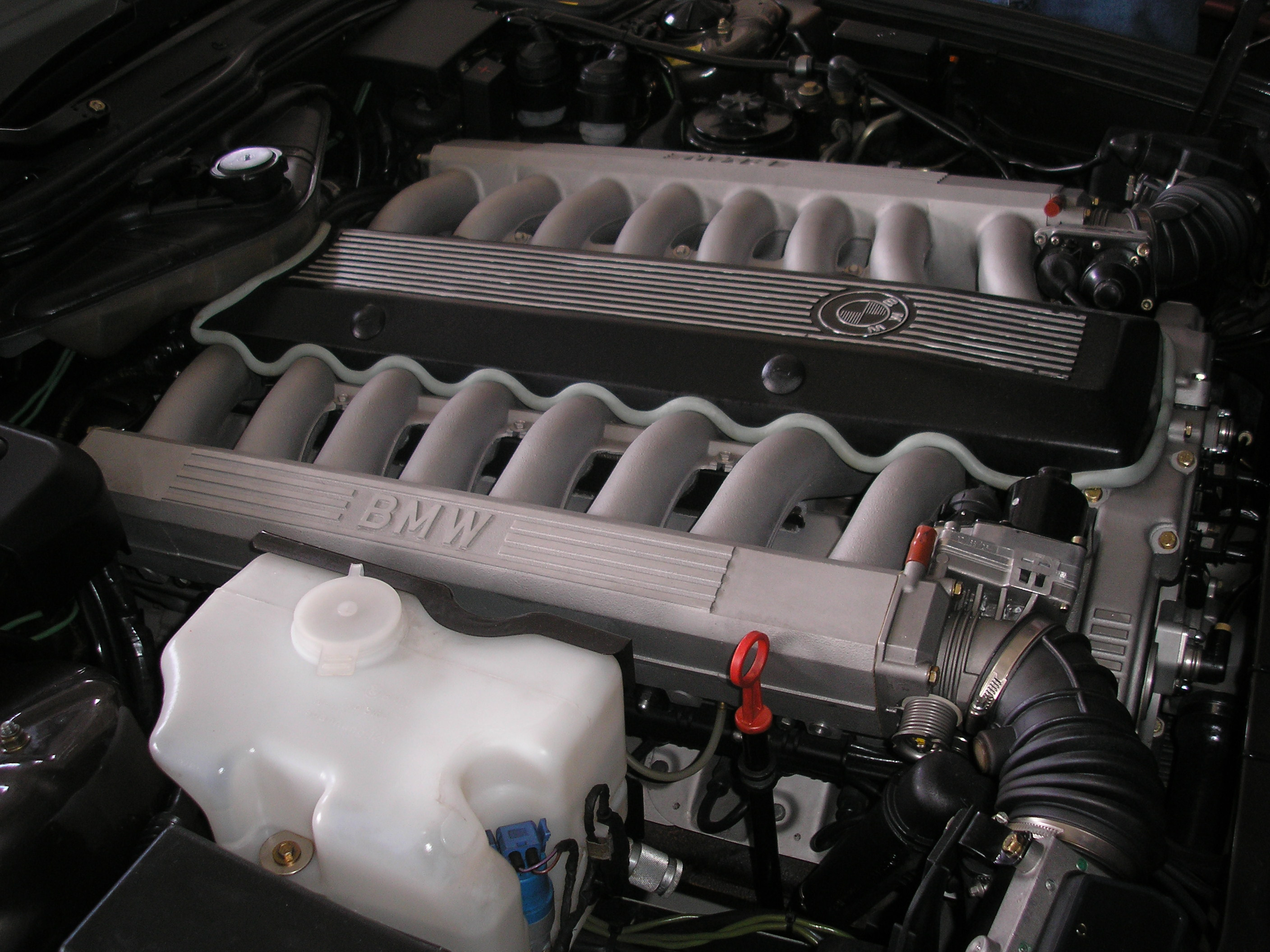 BMW Goldfisch. V16 prototype engine, based on the M70 engine.